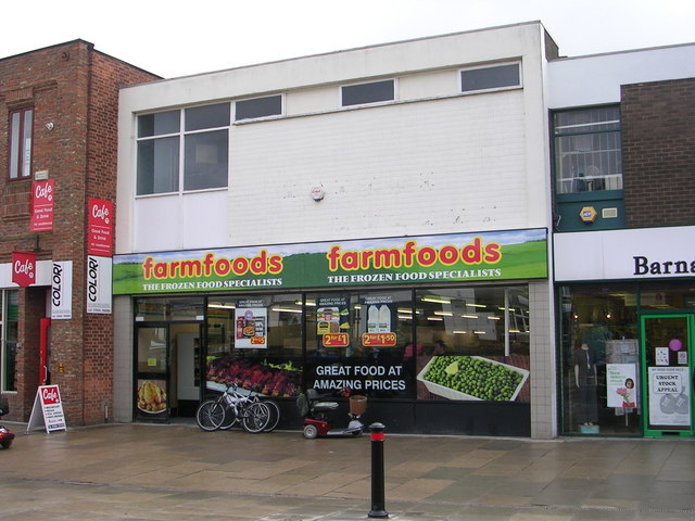 farmfoods - Front Street